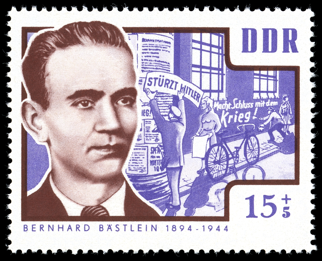 Ausgabepreis: 15+5 Pfennig First Day of Issue / Erstausgabetag: 24. März 1964 Auflage: 3.000.000 Entwurf: Sauer Druckverfahren: Offsetdruck Michel-Katalog-Nr: Ländercode-MiNr: 1016 Licensing This file is most likely NOT in the public domain. It has been marked for review, and will be deleted in due course if the review does not find it to be in the public domain. This file was previously considered to be in the public domain as a German stamp; it is possible that it is in the public domain for other reasons, in which case a new rationale will be applied as part of the review process. See below for the previous rationale. Previous public domain rationale, no longer applicable This stamp is in the public domain in Germany because it was released by the postal administration of the German Democratic Republic or the Soviet occupation zone (Deutschen Post der DDR) whose legal successor is the Federal Republic of Germany. Thus it is an official work according to German copyright law (§ 5 Abs. 1 UrhG).